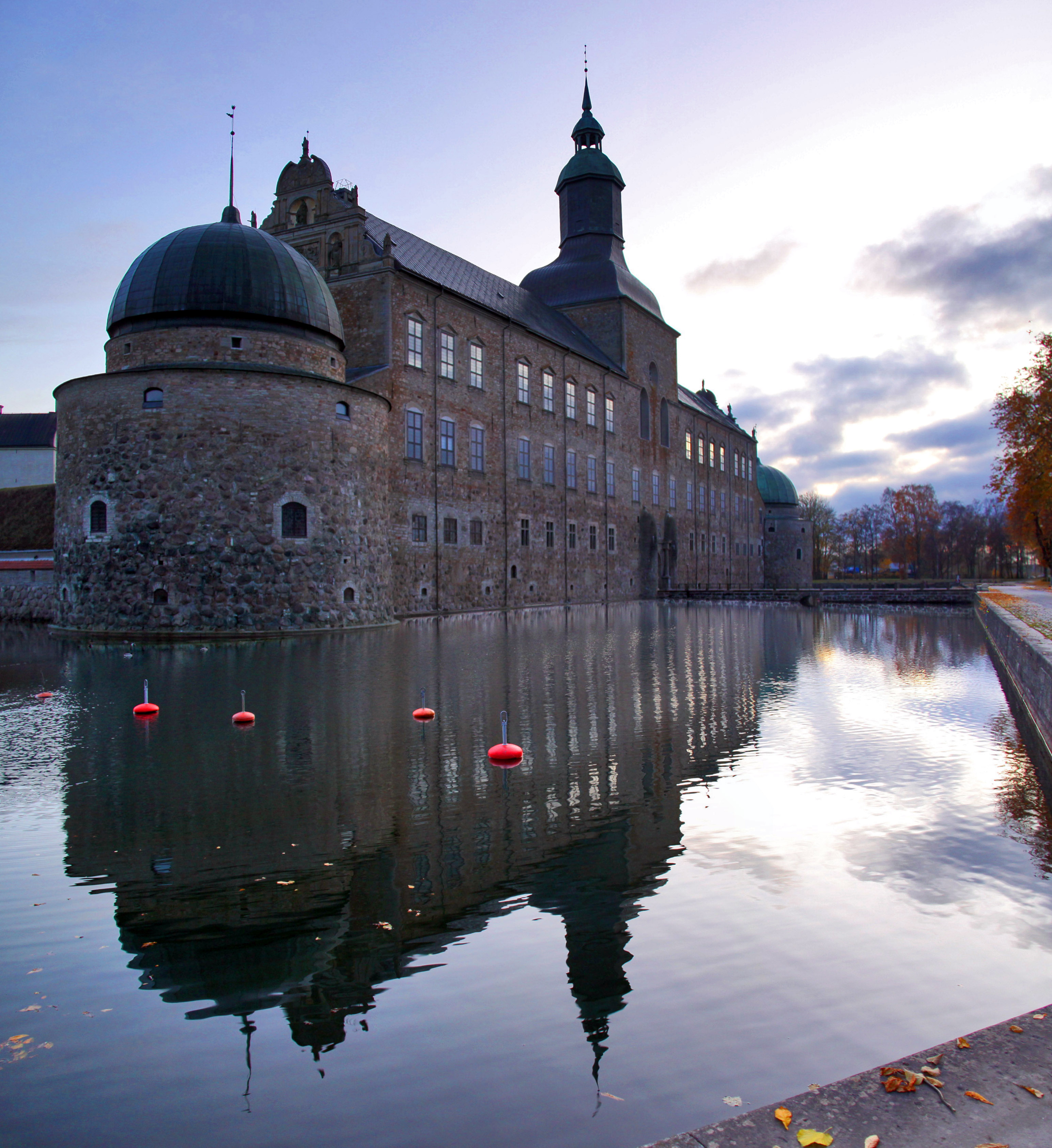 Vadstena, Sweden; the castle.